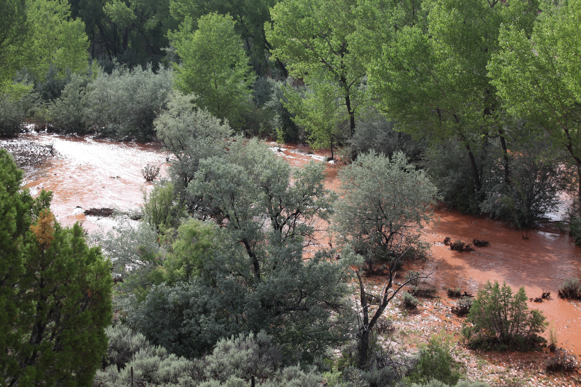 The Puerco River, New Mexico, in flood on August 5, 2010. After the tailings dam failure of the 1979 Church Rock uranium mill spill, 93 million gallons of acidic, radioactive tailings solution flowed into the river.